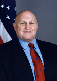 Richard L. Armitage portrait from U.S. Department of State